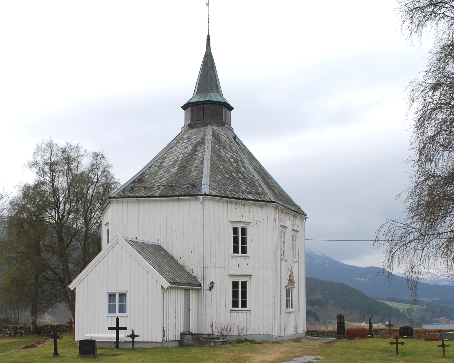 Vinje kirke in Hemne, Norway, crop original